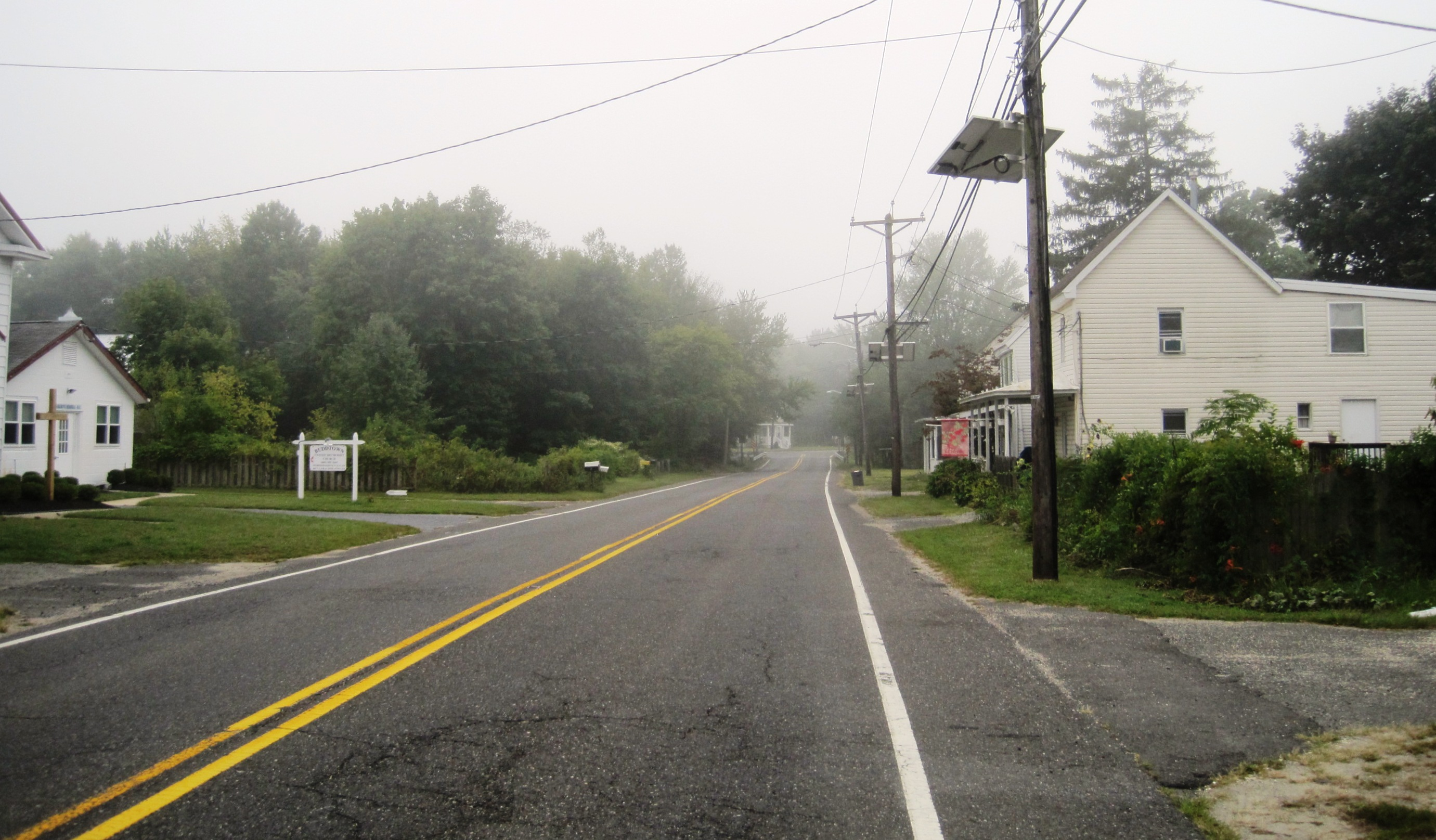 Photo of Buddtown, New Jersey, an unincorporated community within Southampton Township. Photo taken along southbound Ridge Road (County Route 643).